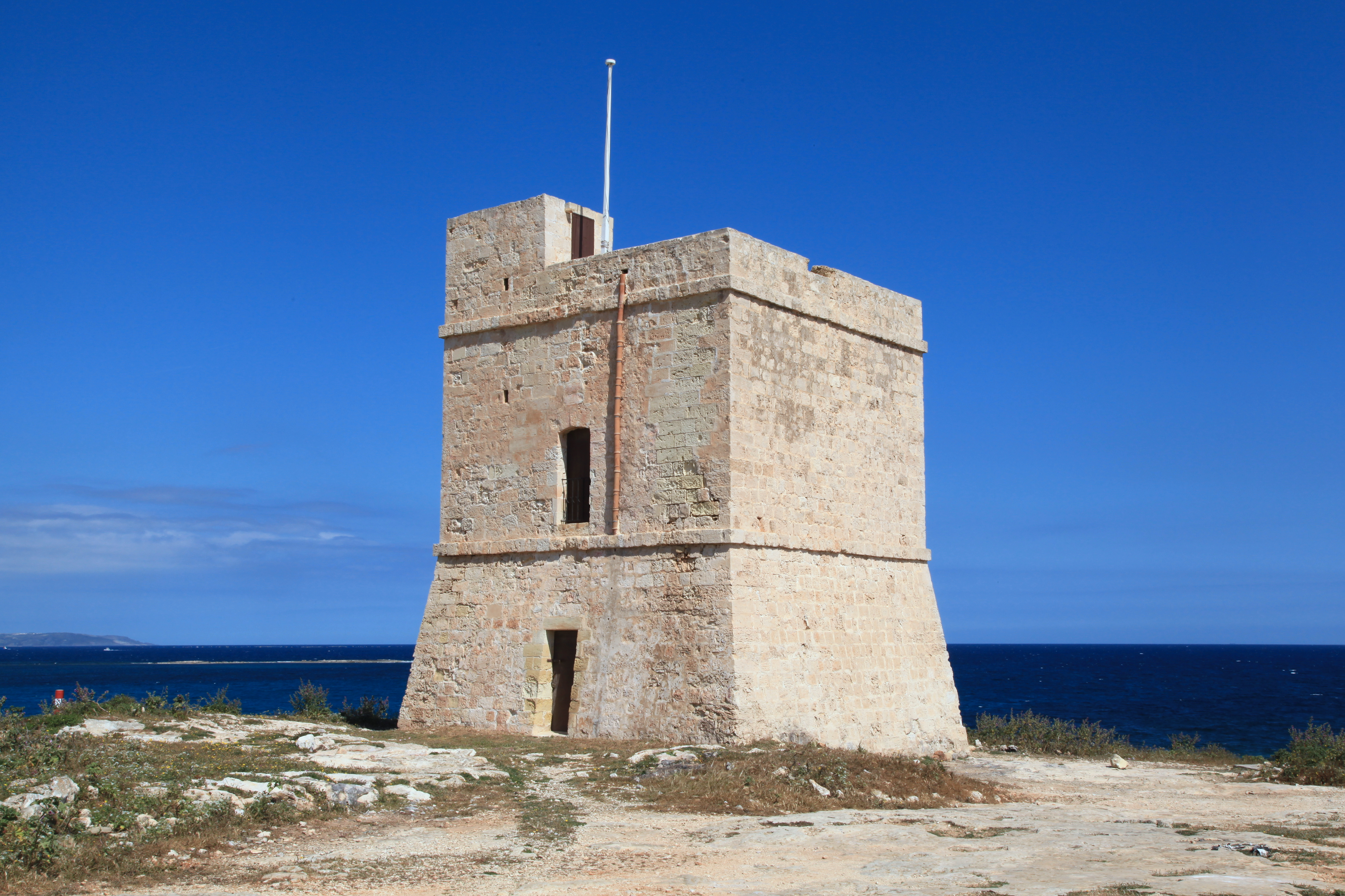 St. Mark's Tower on St. Mark's Tower peninsula in Naxxar, Malta